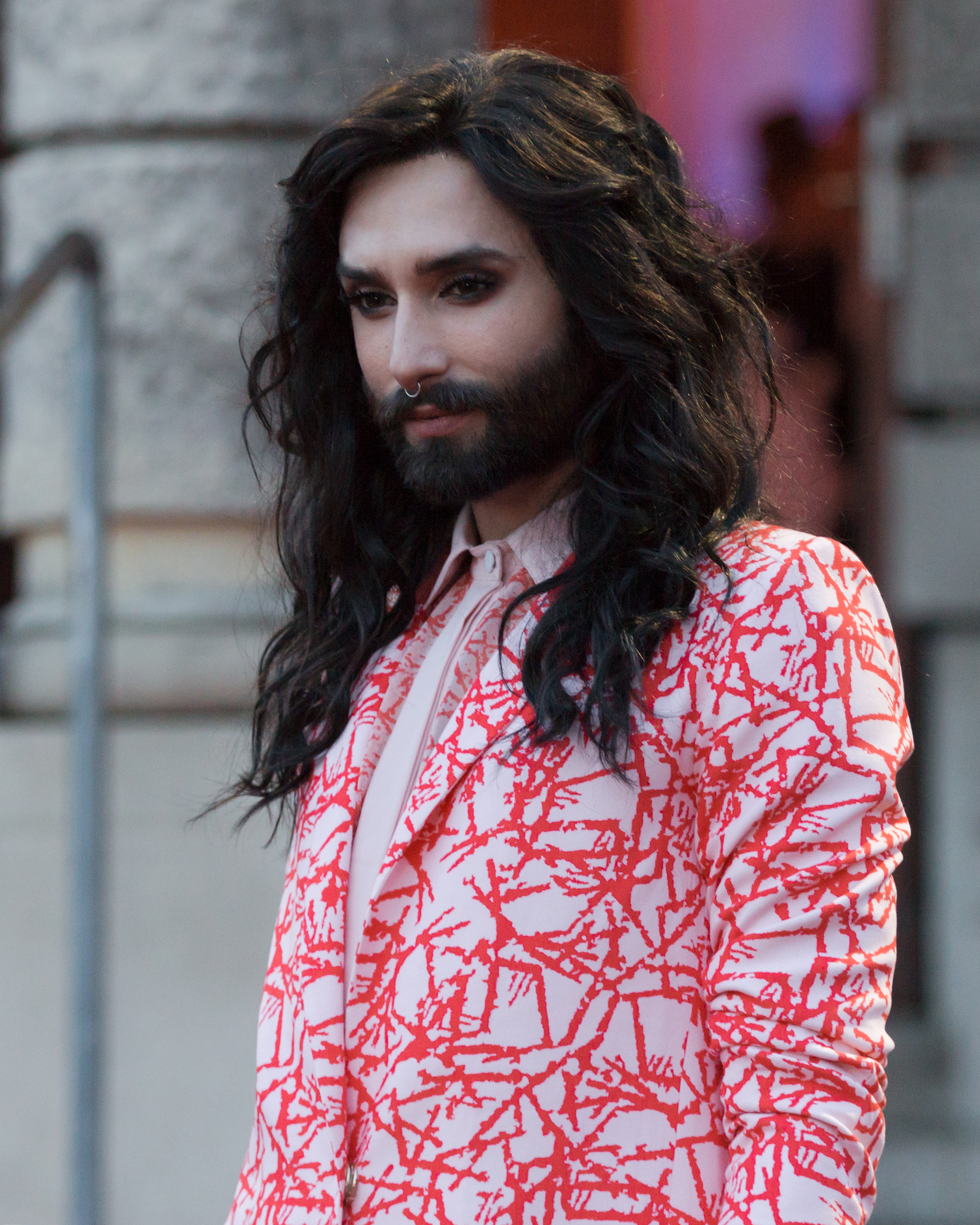 Conchita at the Amadeus Austrian Music Award 2017 at Volkstheater in Vienna.